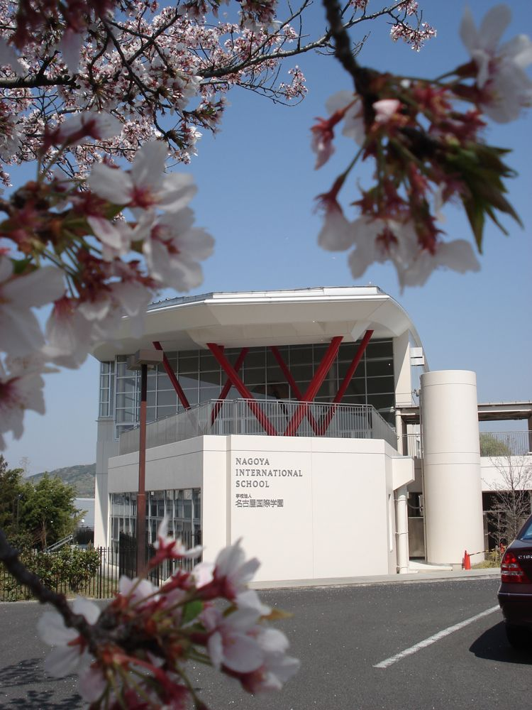 Wing Building